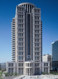 Thomas F. Eagleton U.S. Courthouse